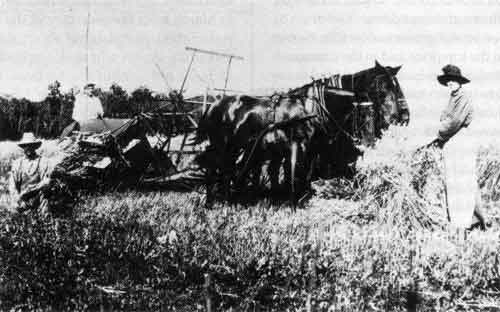 Harvesting wheat near Stonewall, Manitoba